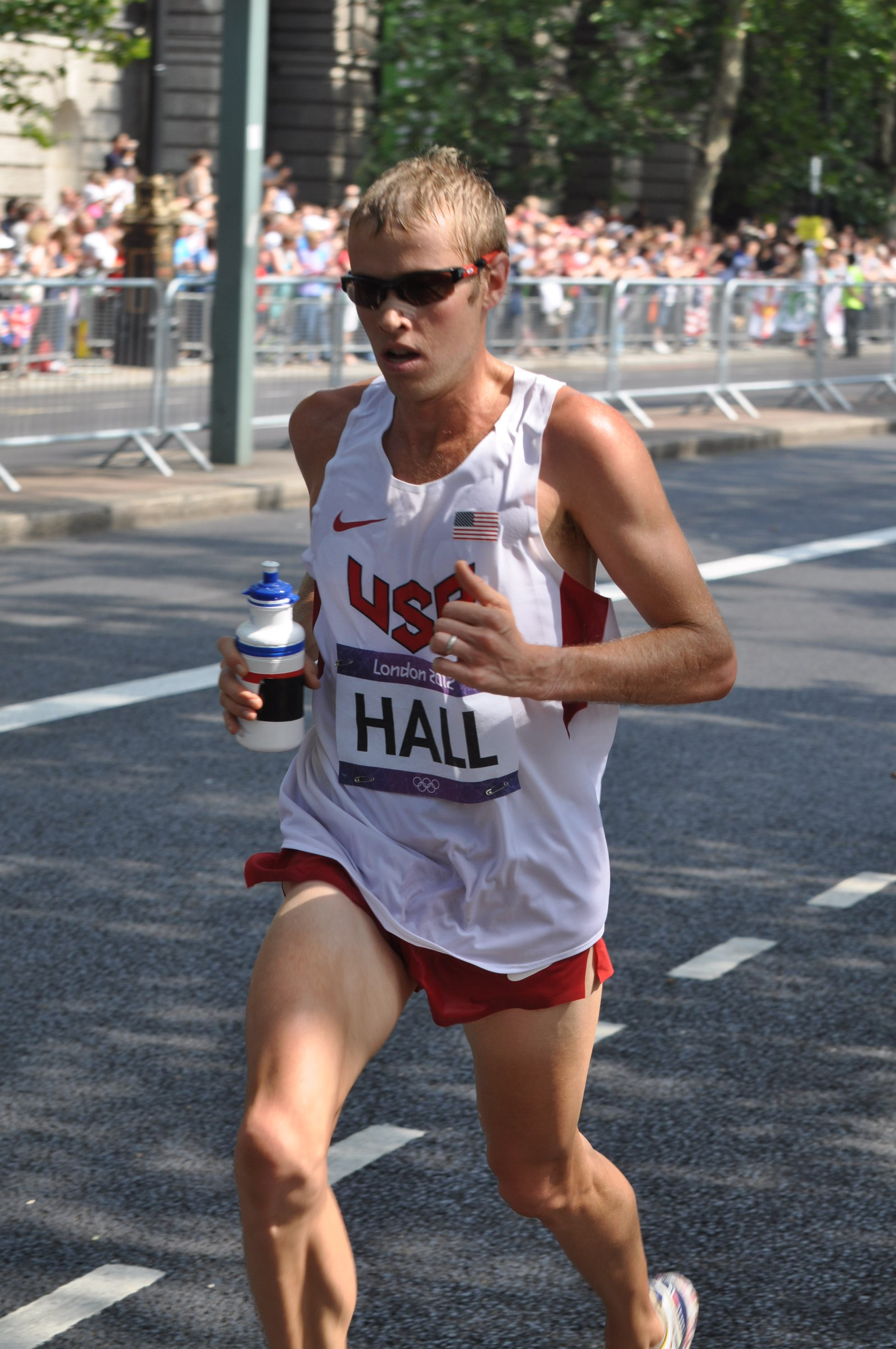 The men's marathon of the 2012 Summer Olympics in London, UK took place on an Olympic marathon street course on Sunday 12th August 2012 at 11:00. This was the final day of the 30th Olympic Games. The London 2012 marathon course is the standard Olympic distance of 26 miles 385 yards and consists of one short lap of approx 2.2 miles followed by three longer laps of 8 miles. The course began on The Mall and travelled past several of the most famous London landmarks. The start/finish line was near the Victoria Memorial. These photographs were taken at the Victoria Embankment. This featured several times on the looped course. The approximate location from the photographs is shown in the Google StreetView Link below. Stephen Kiprotich won in 2 hours, 8 minutes, 1 second as he pulled away from the Kenyan duo of Abel Kirui and Wilson Kiprotich Kipsang. These photographs are unofficial photographs. They are not endorsed by London 2012. There are not commercially available. They are available for use under a Creative Commons License. Please link back to the photograph on my Flickr account if you use the image.